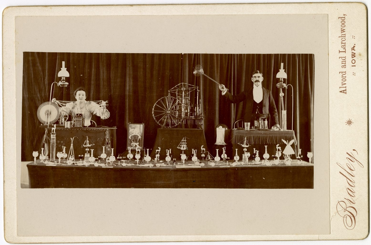 Two itinerant glassworkers, possibly Frank A. Owen and his wife, stand behind a table display of glassware featuring a spinning wheel on left and a glass steam engine in the center. The spinning wheel was used to spin glass to a flexible state; items such as glass bonnets were produced using such a method.